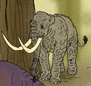 My reconstruction of the meter-tall Mediterranean elephant, Elephas falconeri of Late Pleistocene Sicily (C) Stanton F. Fink